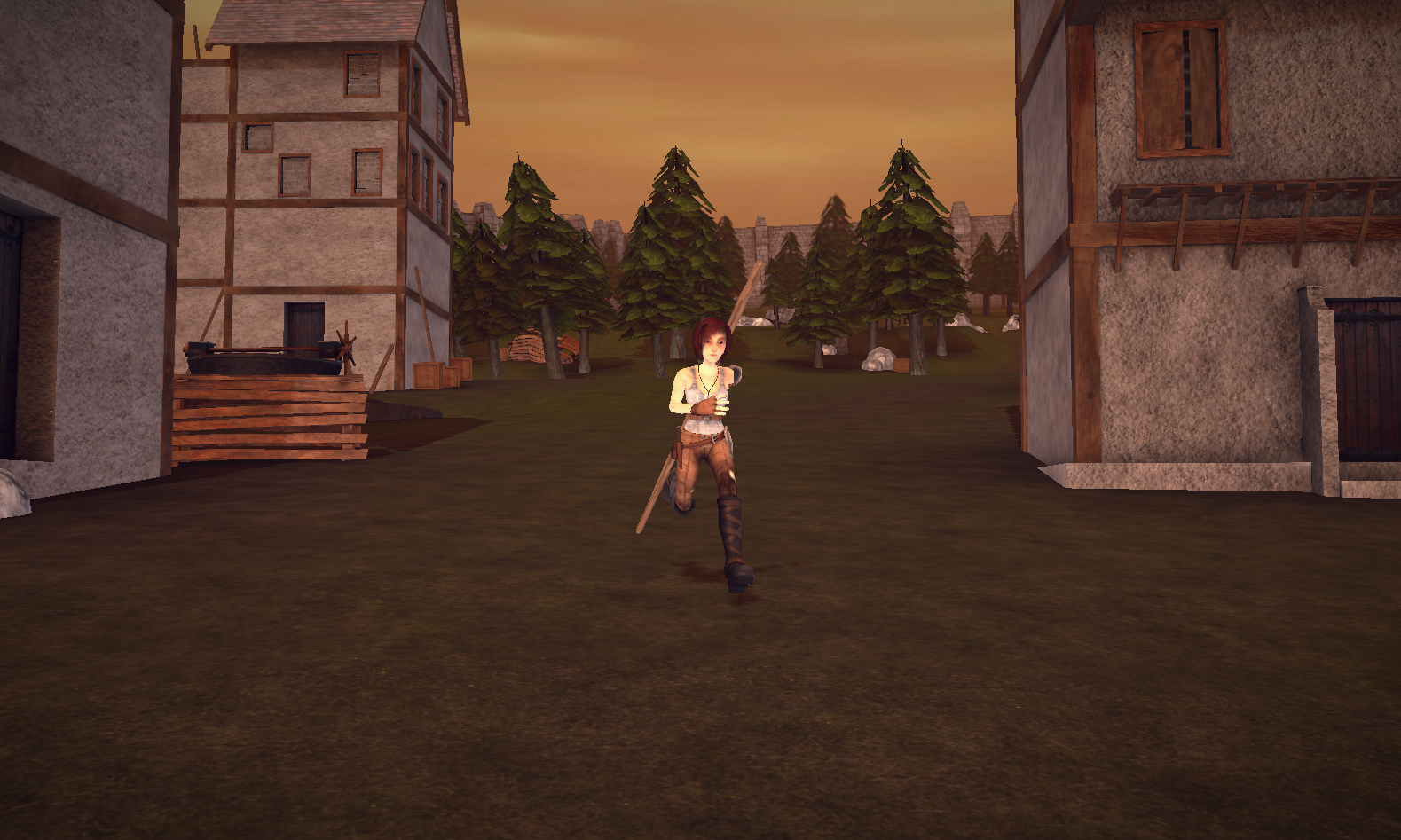 This is a picture of the Docks level in Sintel The Game.